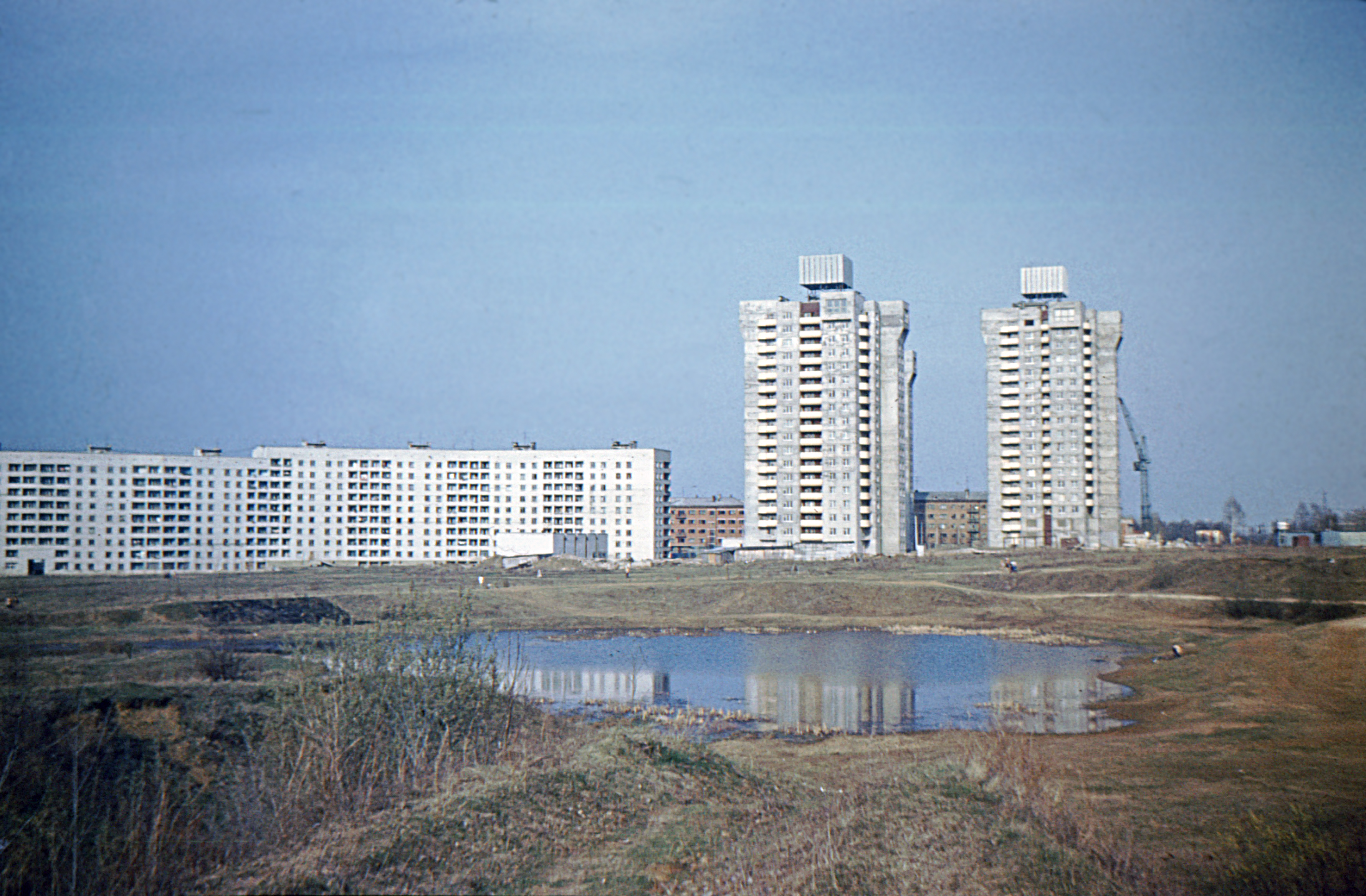 Cheboksary. Housing of Afanasiev Street in 1987